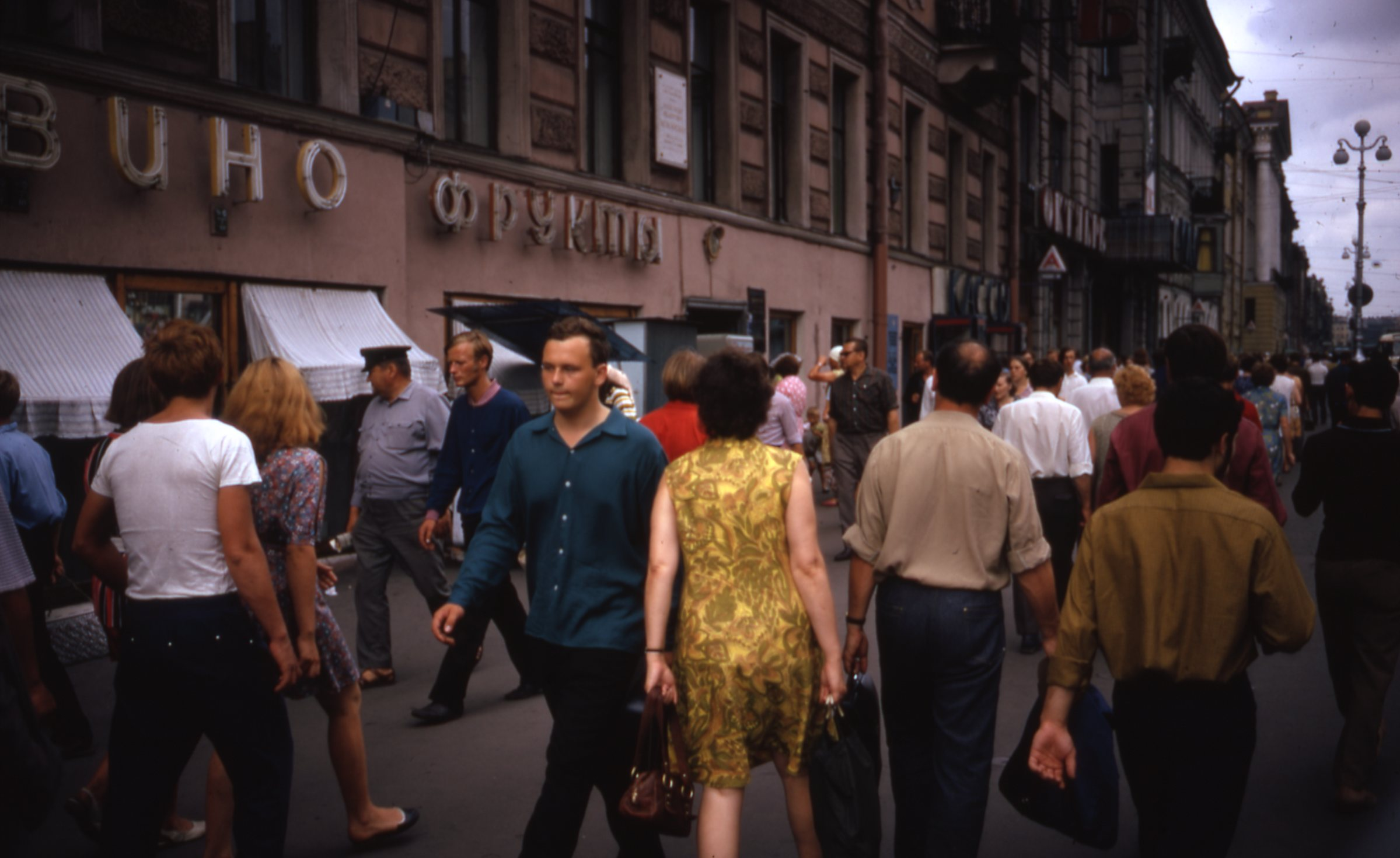 These images were taken by Thomas T. Hammond during his trip to the Soviet Union. These photos feature street scenes from Saint Petersburg.